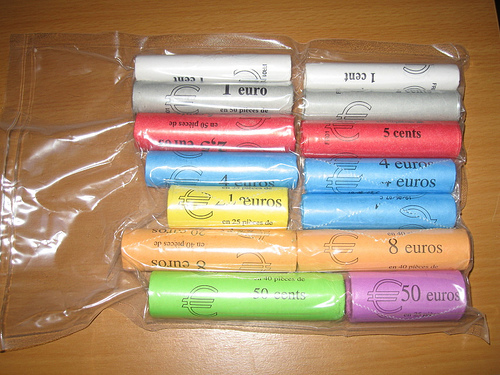 The Cypriot Business Kit